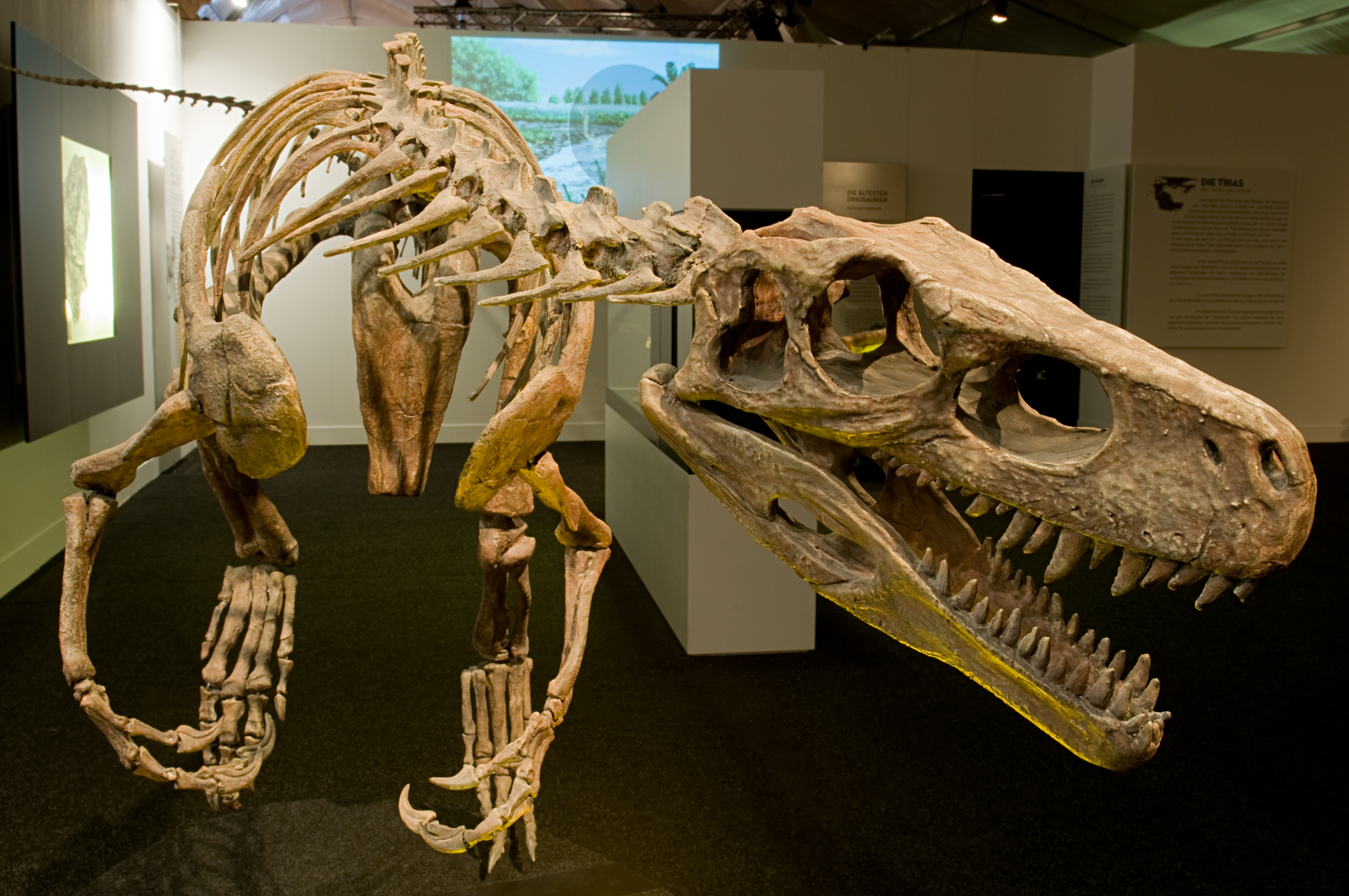 Skeleton replica at a special exhibition of the Naturmuseum Senckenberg